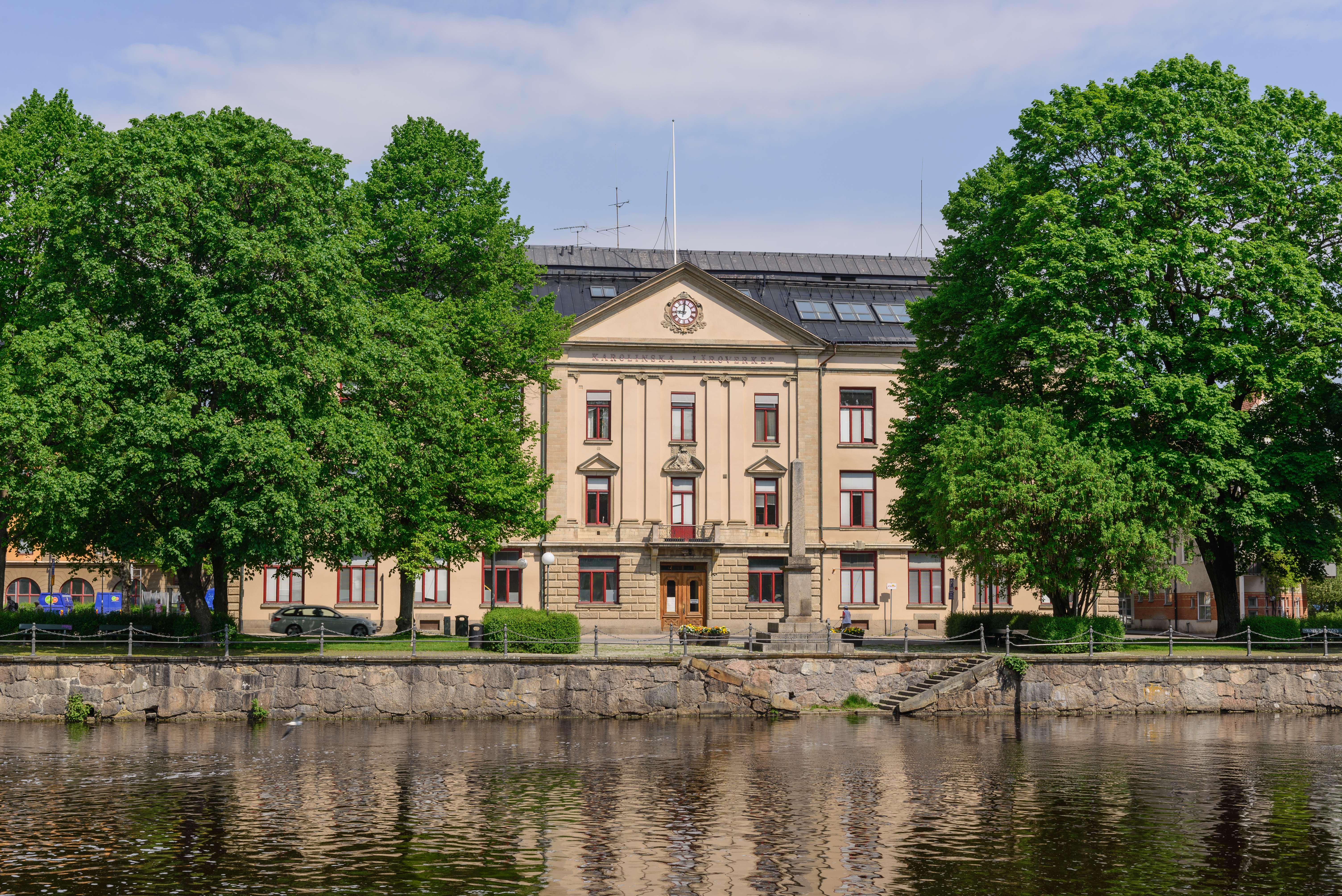 The main building of Karolinska läroverket, a Swedish upper secondary school in Örebro. The history of the school goes back to the middle ages; the present main building was erected in 1832.